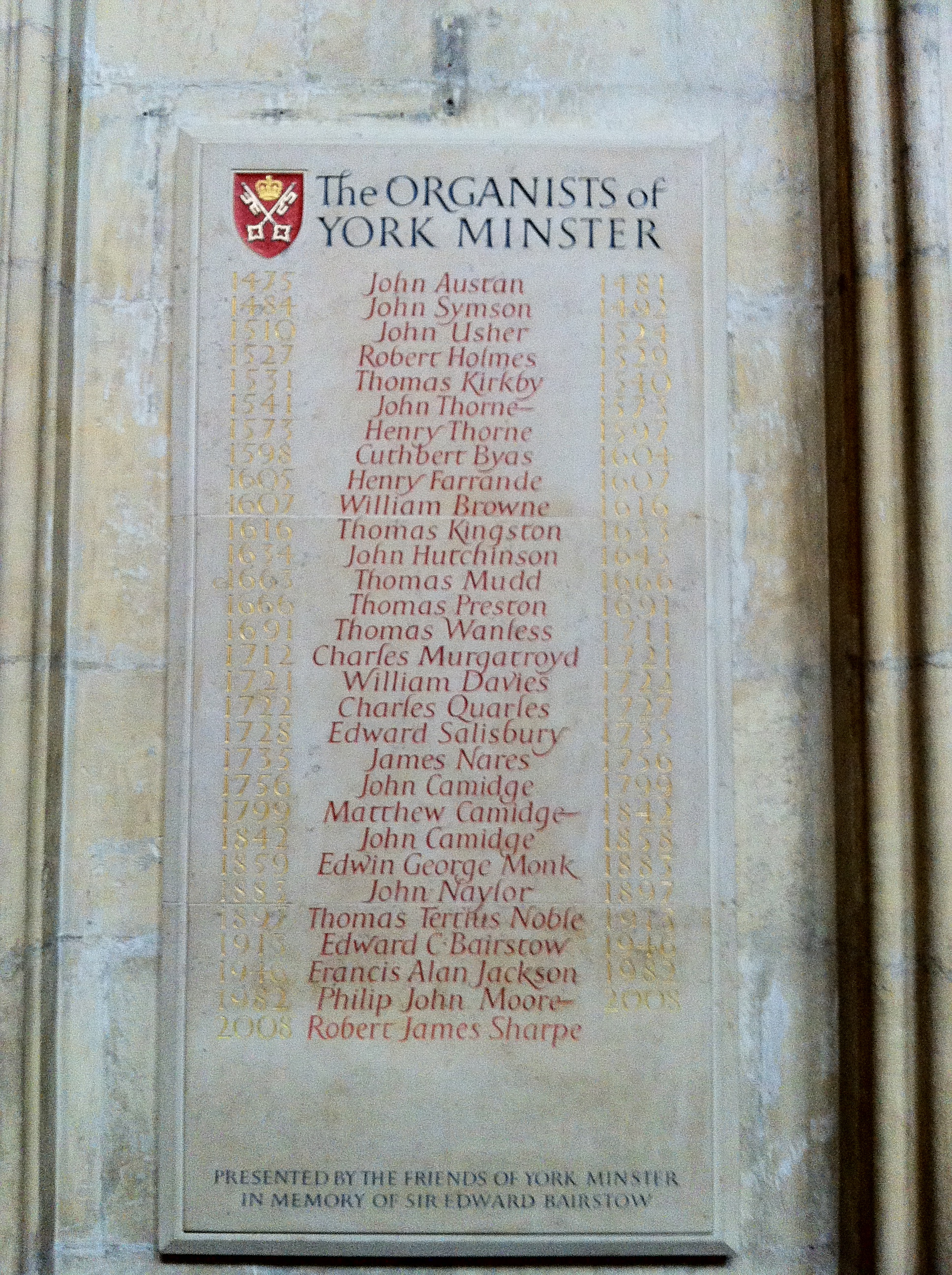 List of the organists of York Minster in the north choir aisle